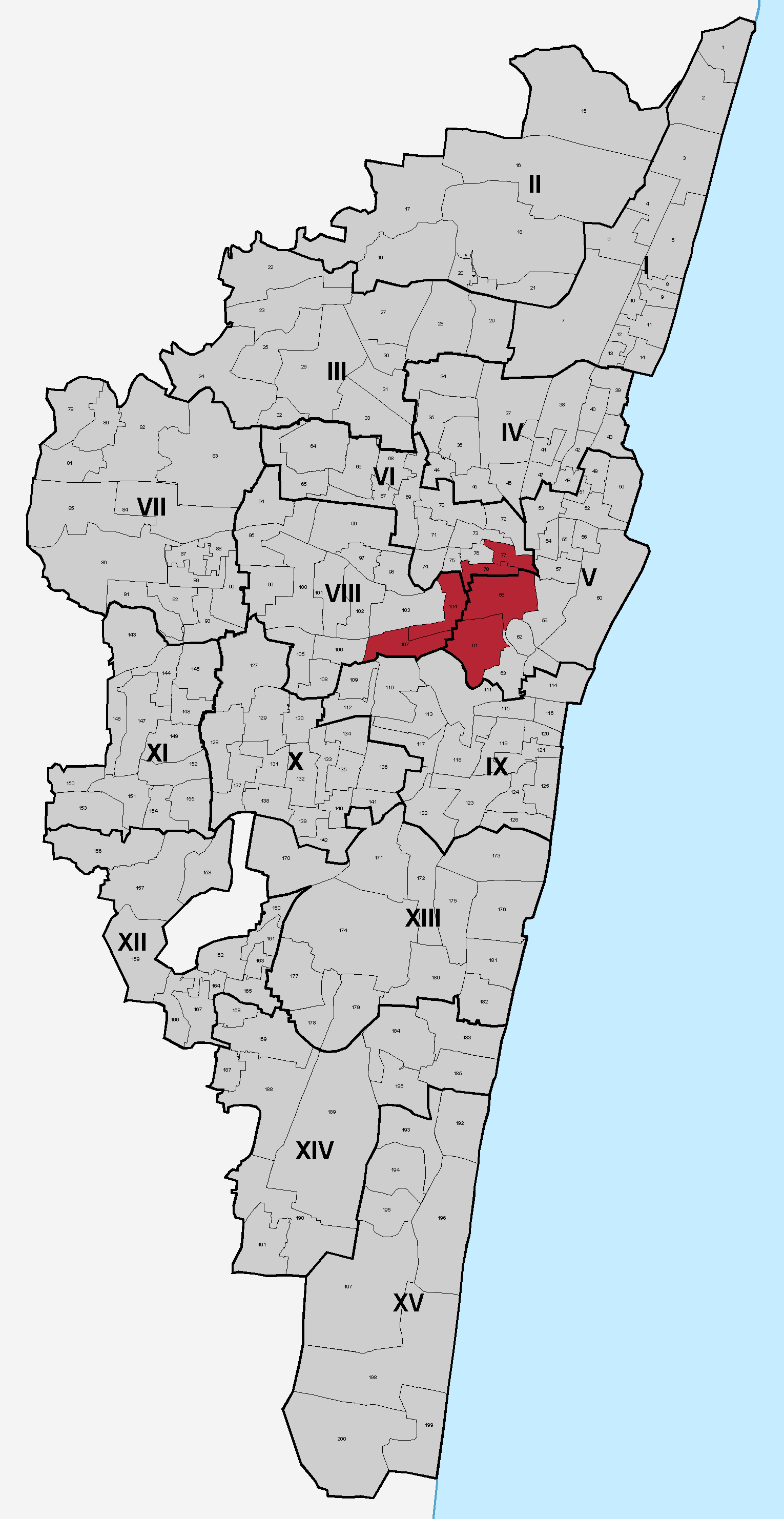 Location of Egmore assembly constituency in Chennai